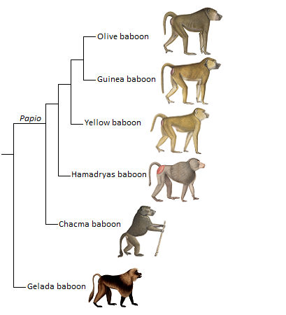 Phylogeny of baboons based on Zinner, D., Arnold, M. L., Roos, C., 2009. Is the new primate genus Rungwecebus a baboon? PLos ONE 4